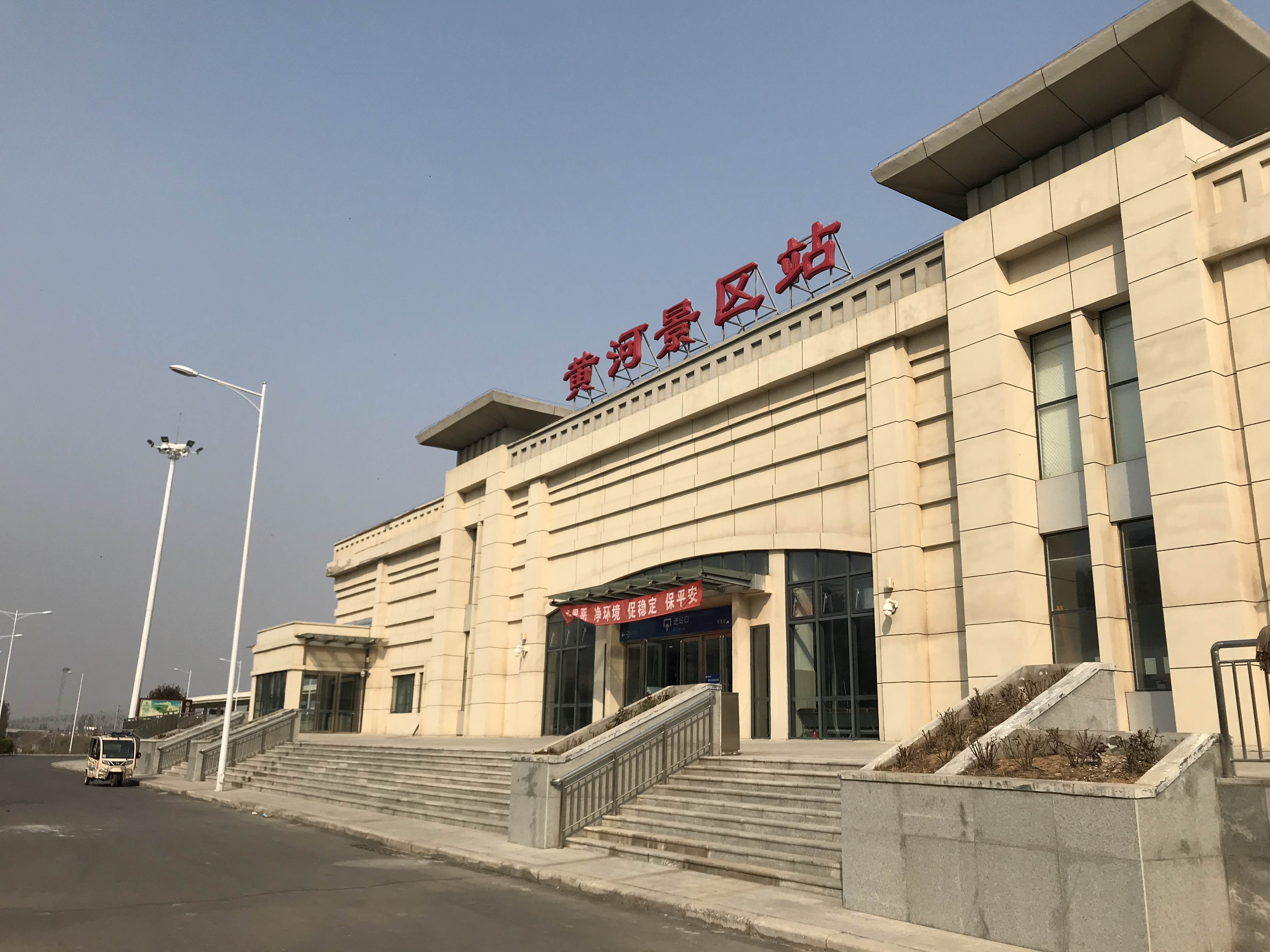 Station building of Huanghejingqu station